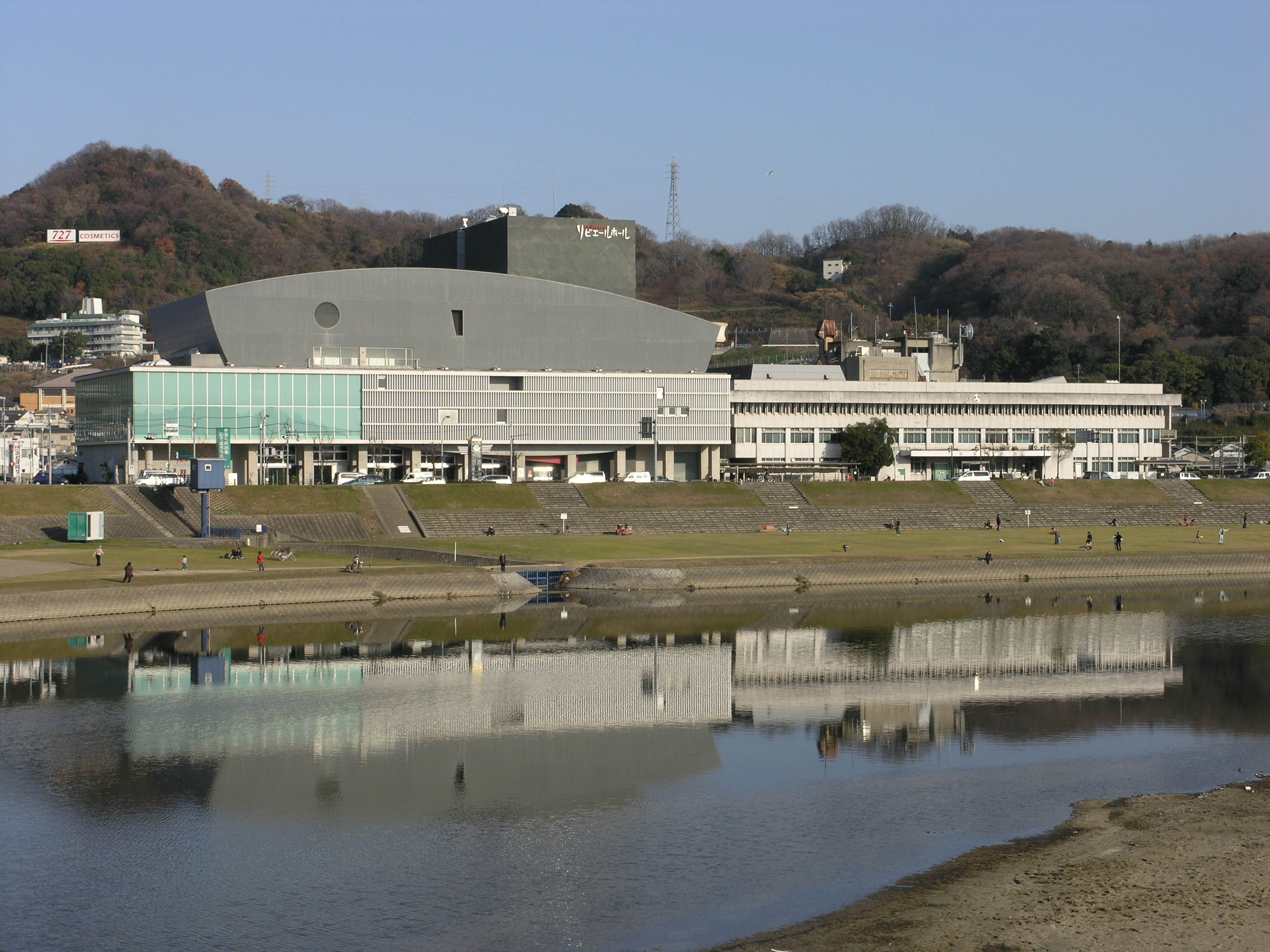 Kashiwara City Office and Riviere Hall, Osaka Prefecture, Japan